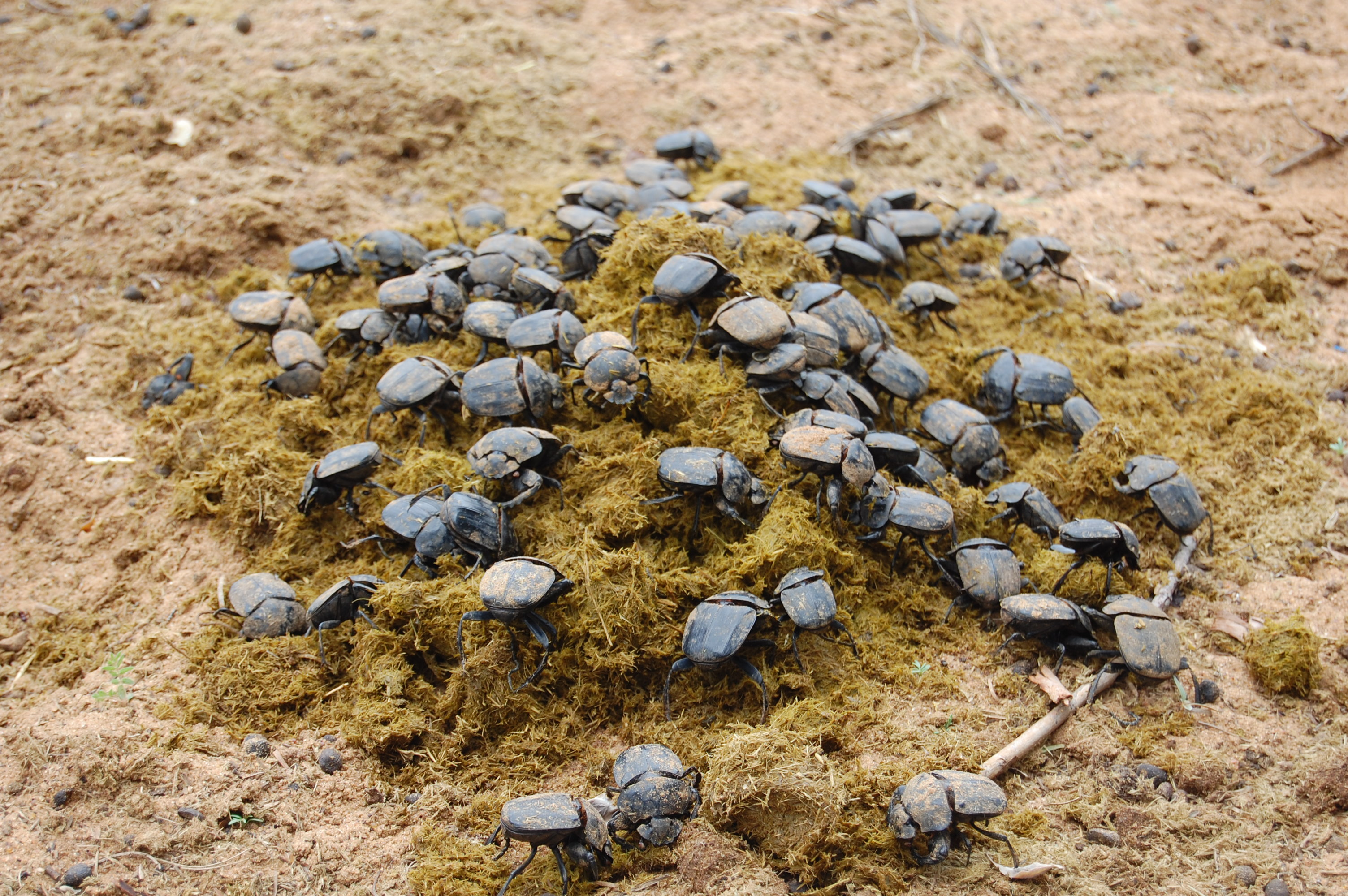 Allot of dung beetles having a feast on horse dung.